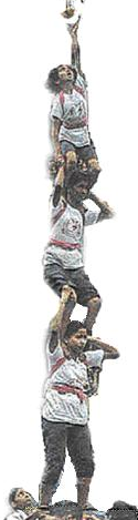 In Govinda sport at top of the pyramid ladder arrangement is made that is shown in this picture. This picture shows girl players forming the ladder.